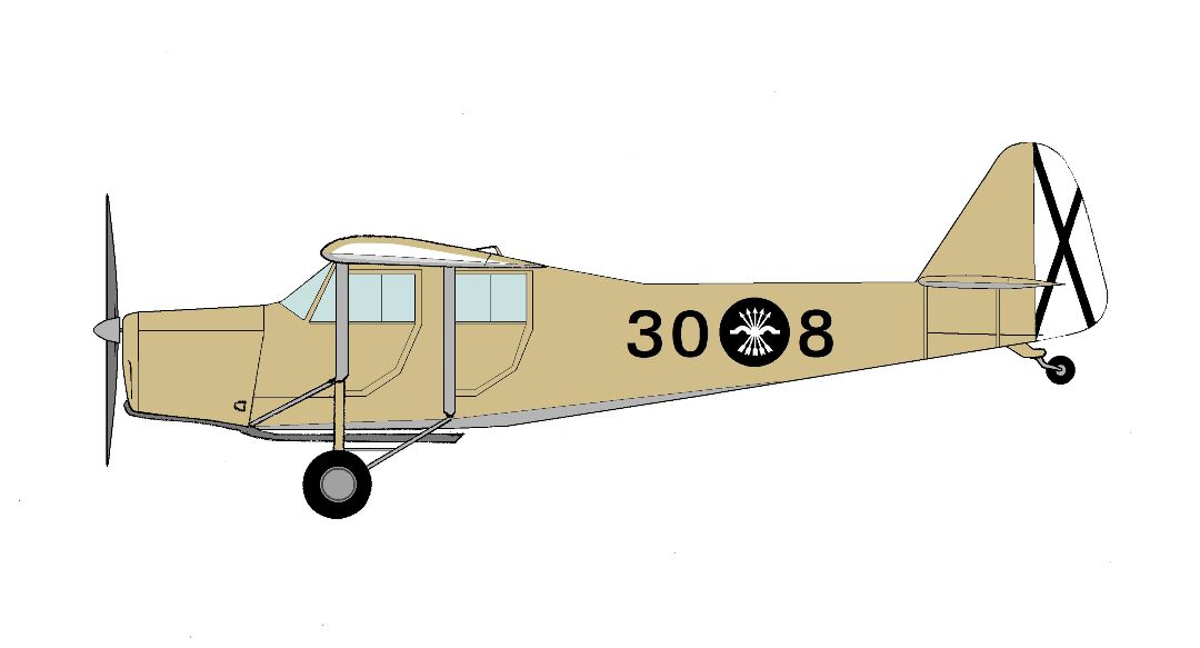 Caudron 286 of the rebel air force during the Spanish Civil War 1936-39